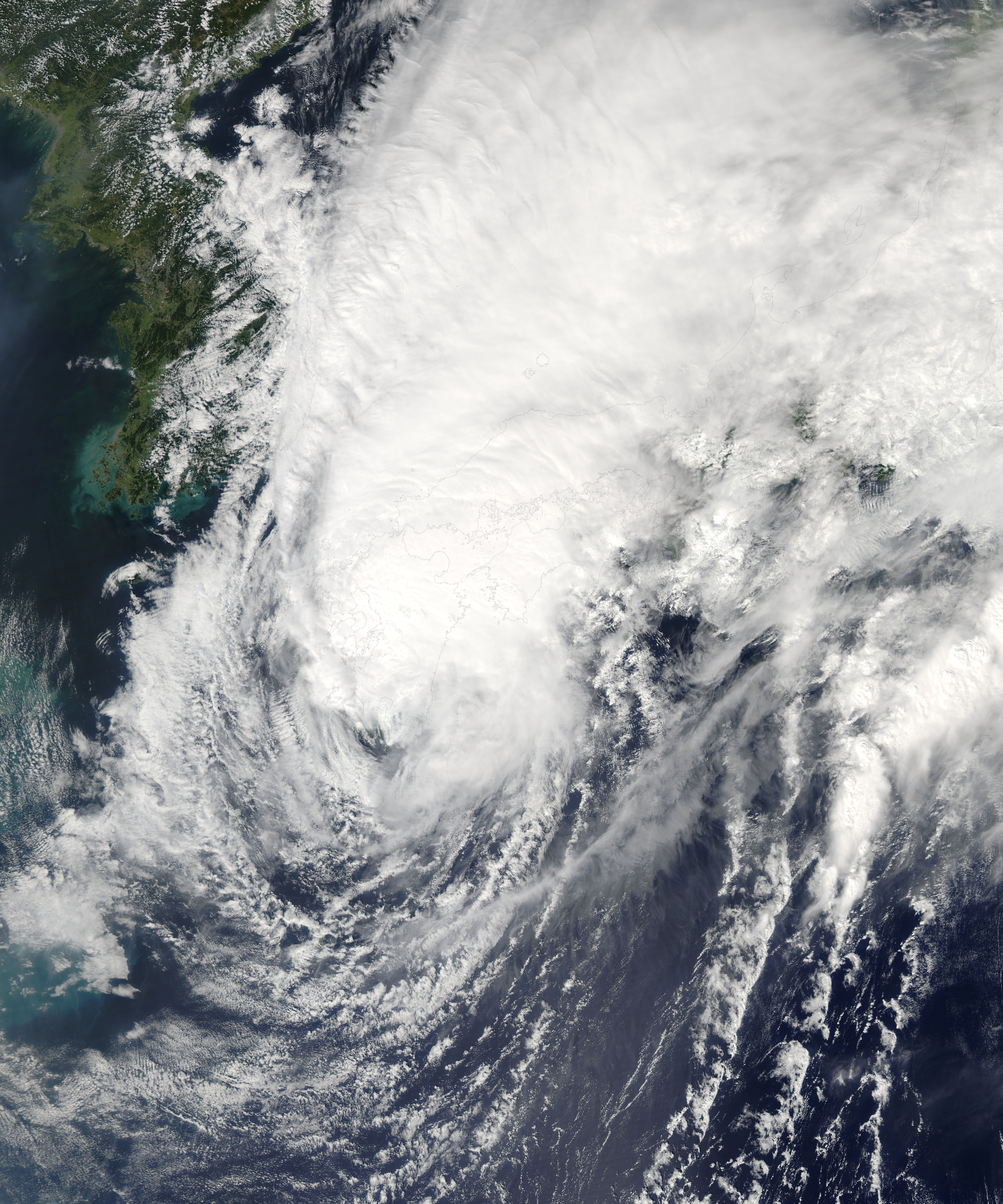 Tropical Storm Talim (20W) over Japan